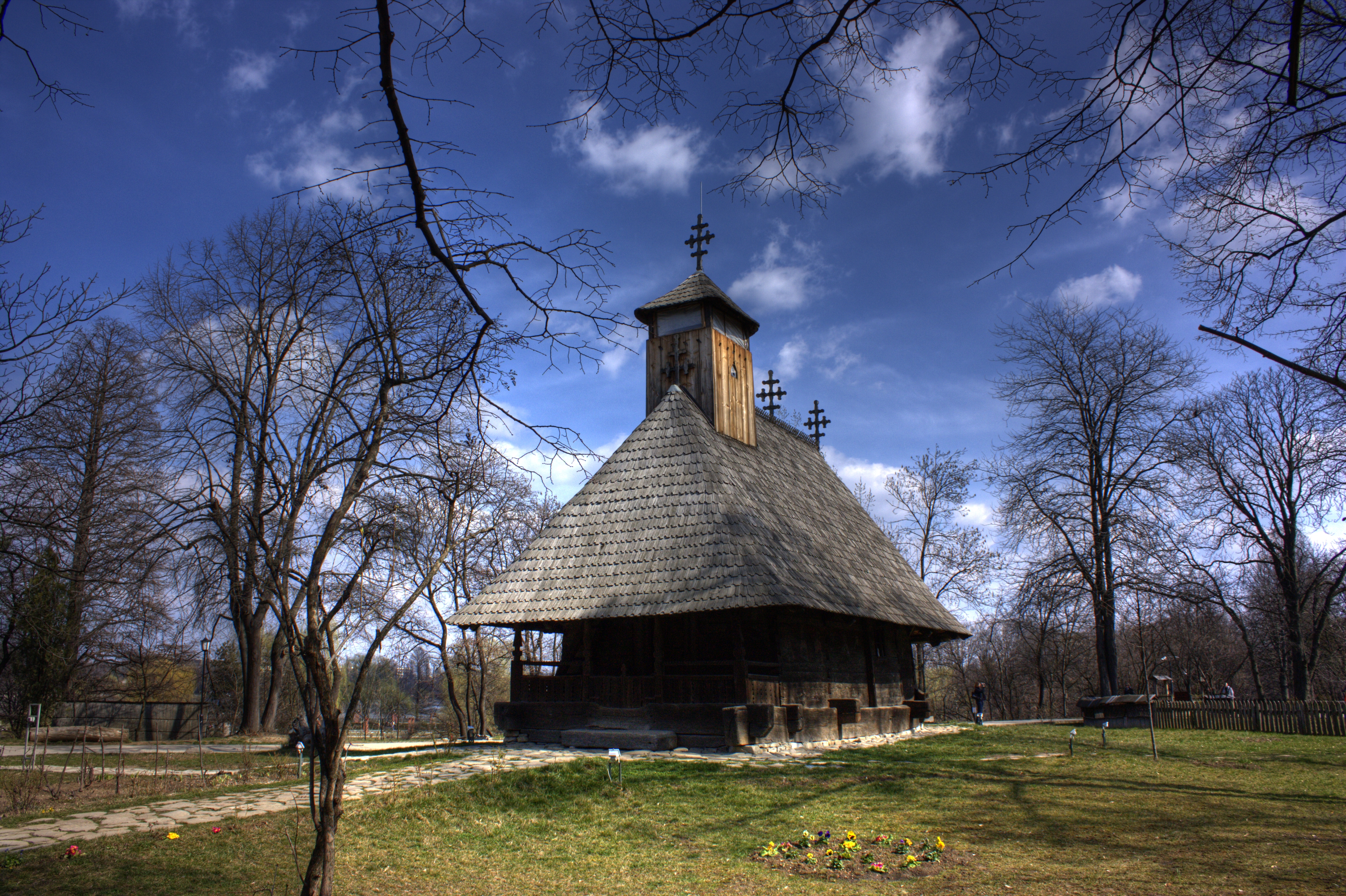 The Church of the village Timişeni (St. Nicholas church) from the National Village Museum "Dimitrie Gusti" in Bucharest, Romania.